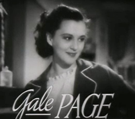 Cropped screenshot of Gale Page from the trailer for the film Four Daughters